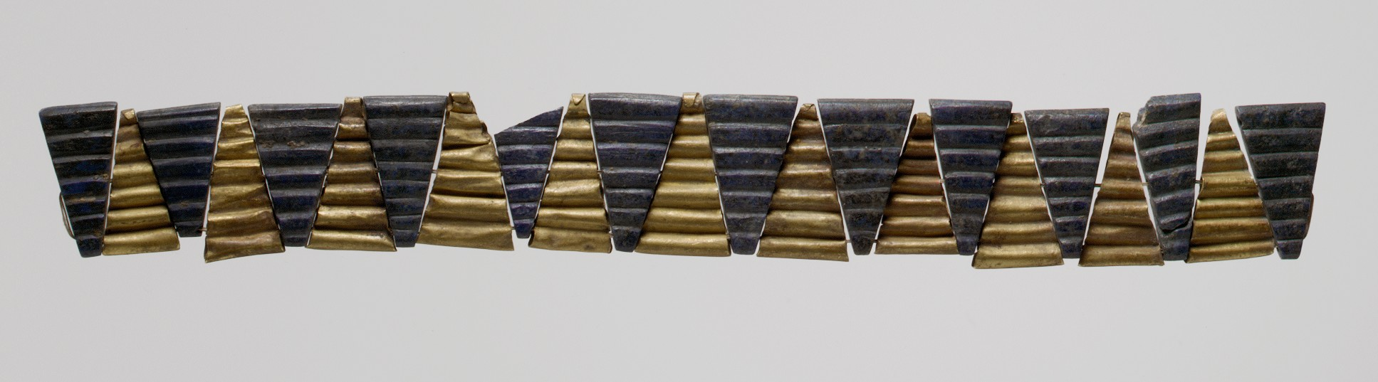 Sumerian; Necklace; Metalwork-Ornaments